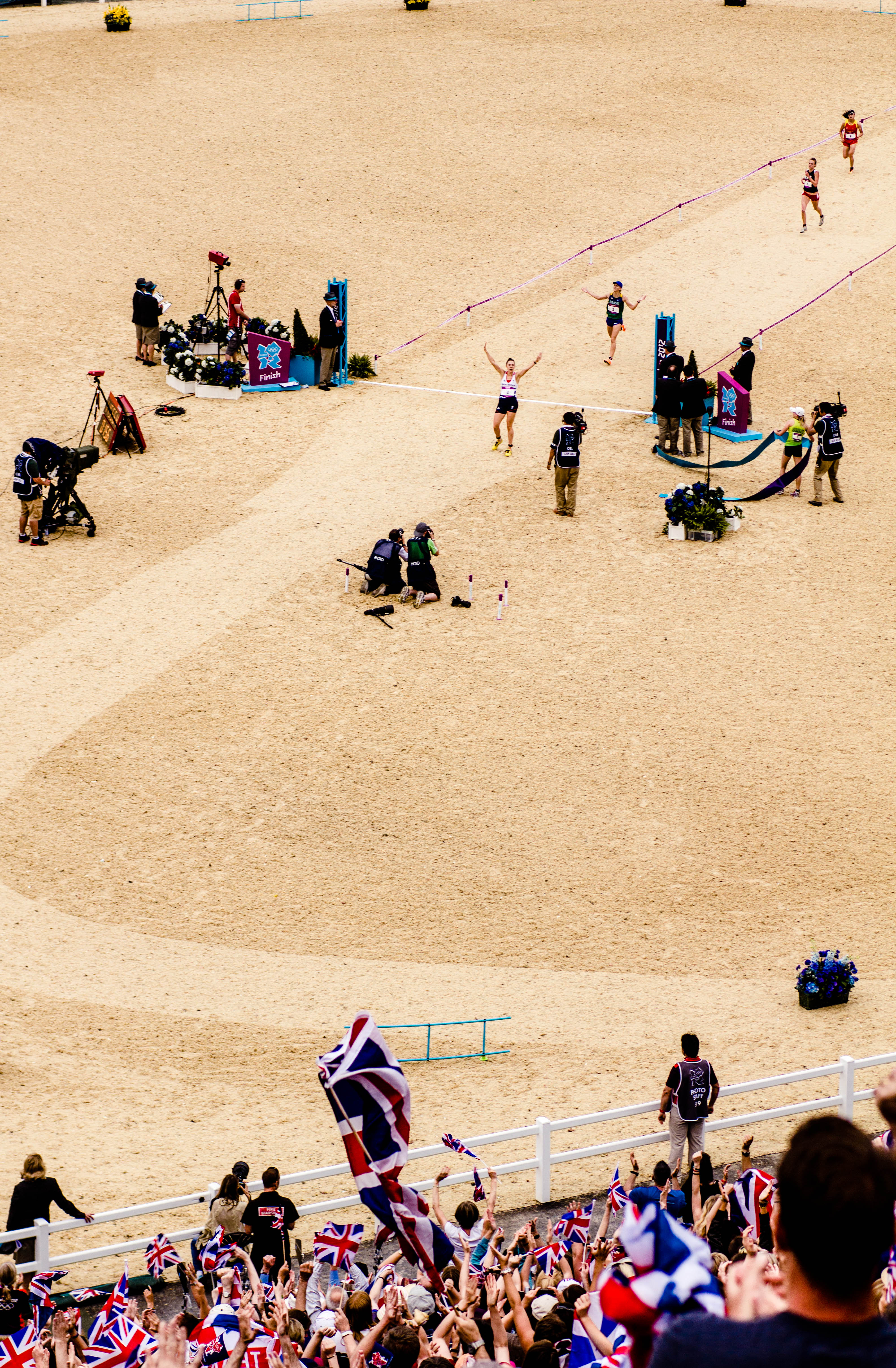 Laura Asadauskaitė already finished, Samantha Murray in finish line, Brazilian running 3rd.